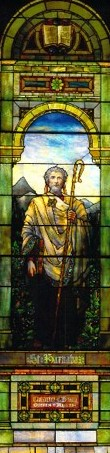 Tiffany Window in First Presbyterian Church, Springfield, Illinois U.S.A.